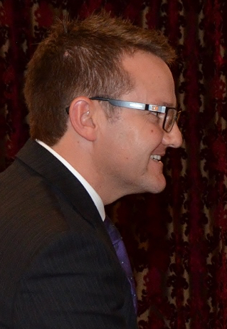 Mike Hesson, after his investiture as ONZM, for services to cricket, at Government House, Wellington, on 10 September 2015.